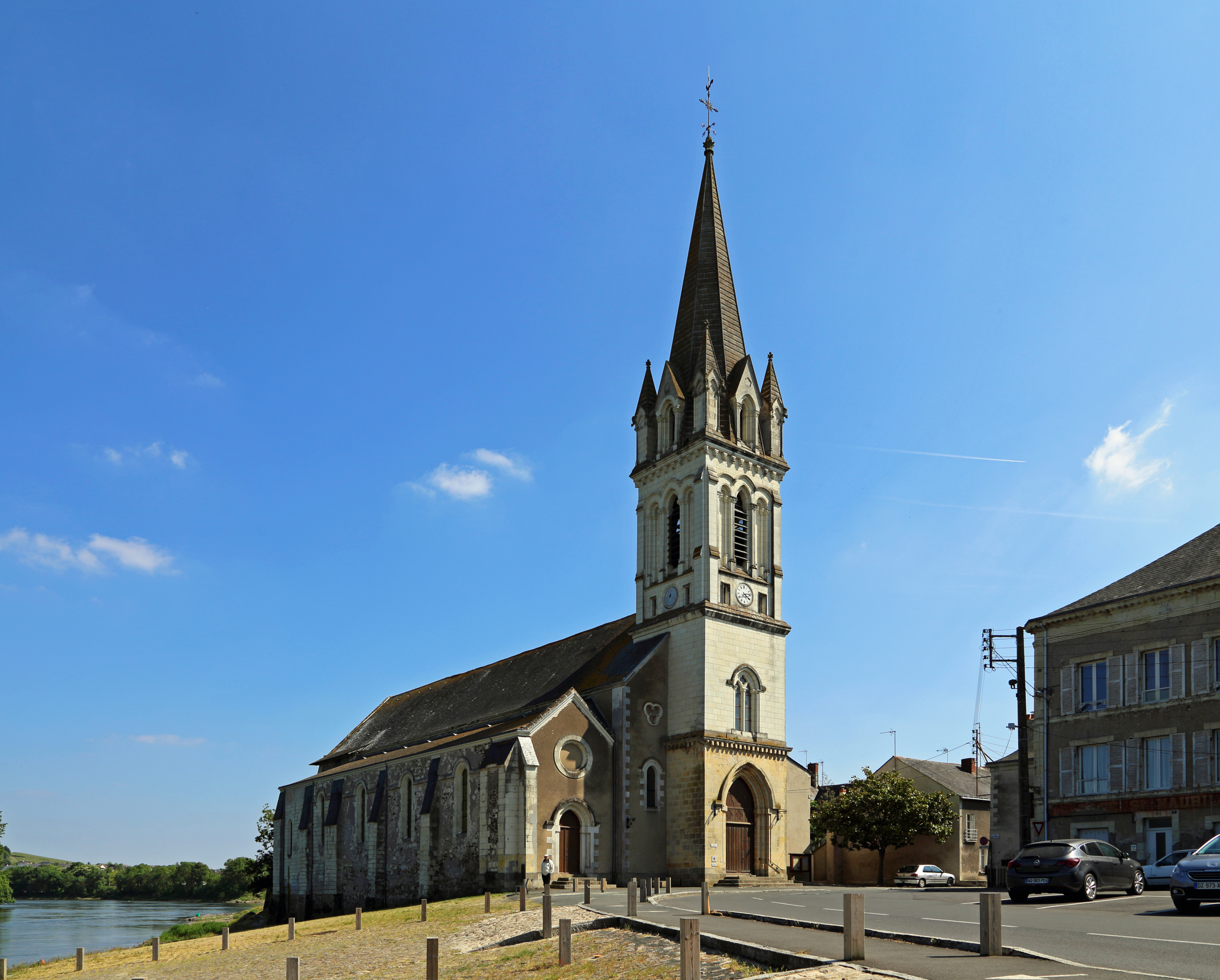 Chalonnes-sur-Loire (département Maine-et-Loire, France): Saint-Maurille church